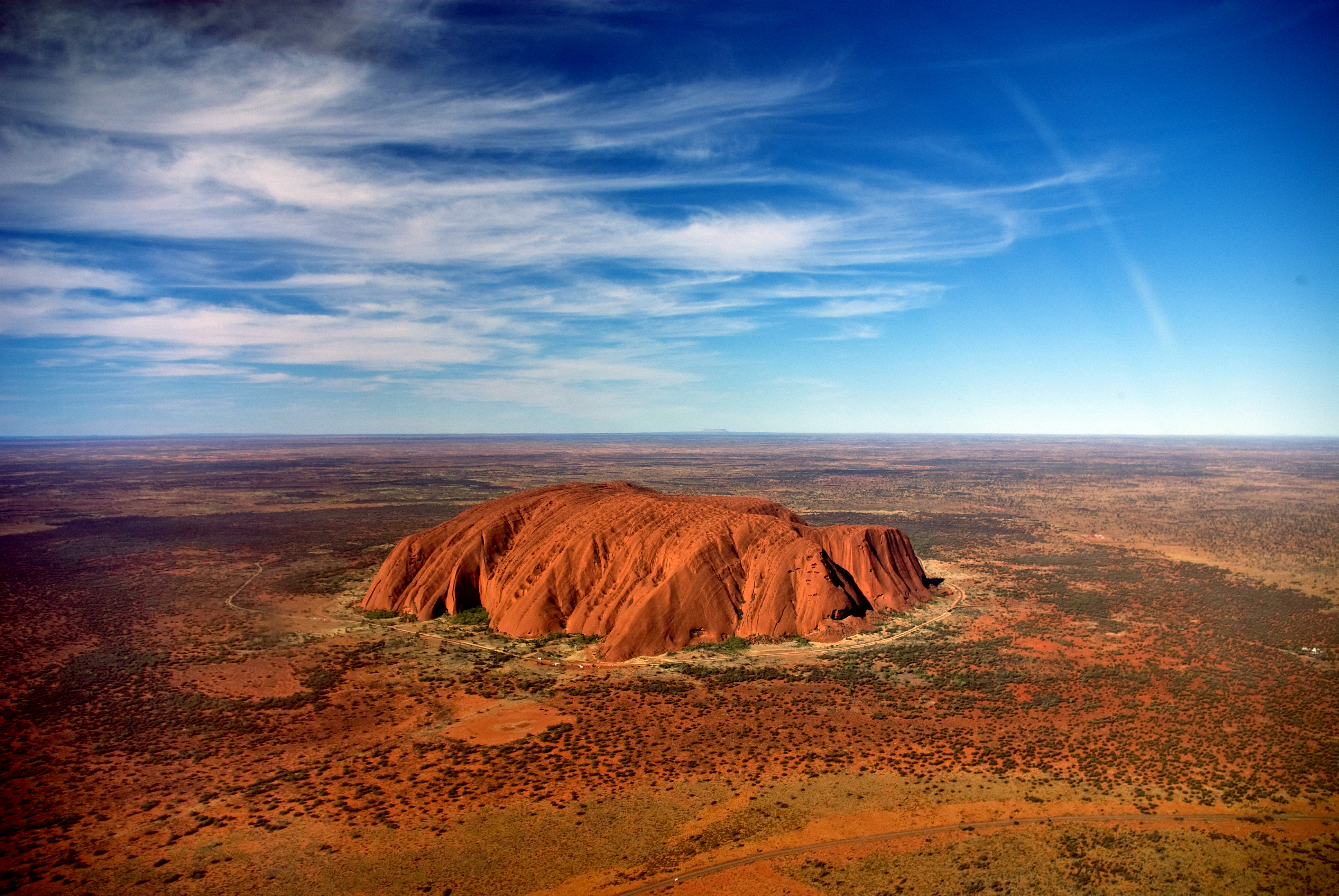 Uluru from a Helicopter, in the background the Mount Conner